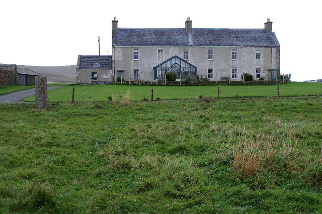 Buness House, Baltasound Home of the Edmondston family since the 18th century. Some parts of the structure may survive from this time, but there have been many extensions, refurbishments, demolitions and renovations in this time.